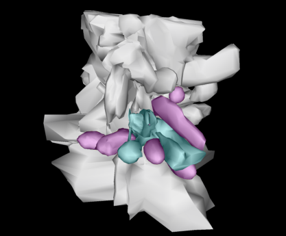 Local Bubble (White), Molecular clouds (Pink), Loop I (Blue)